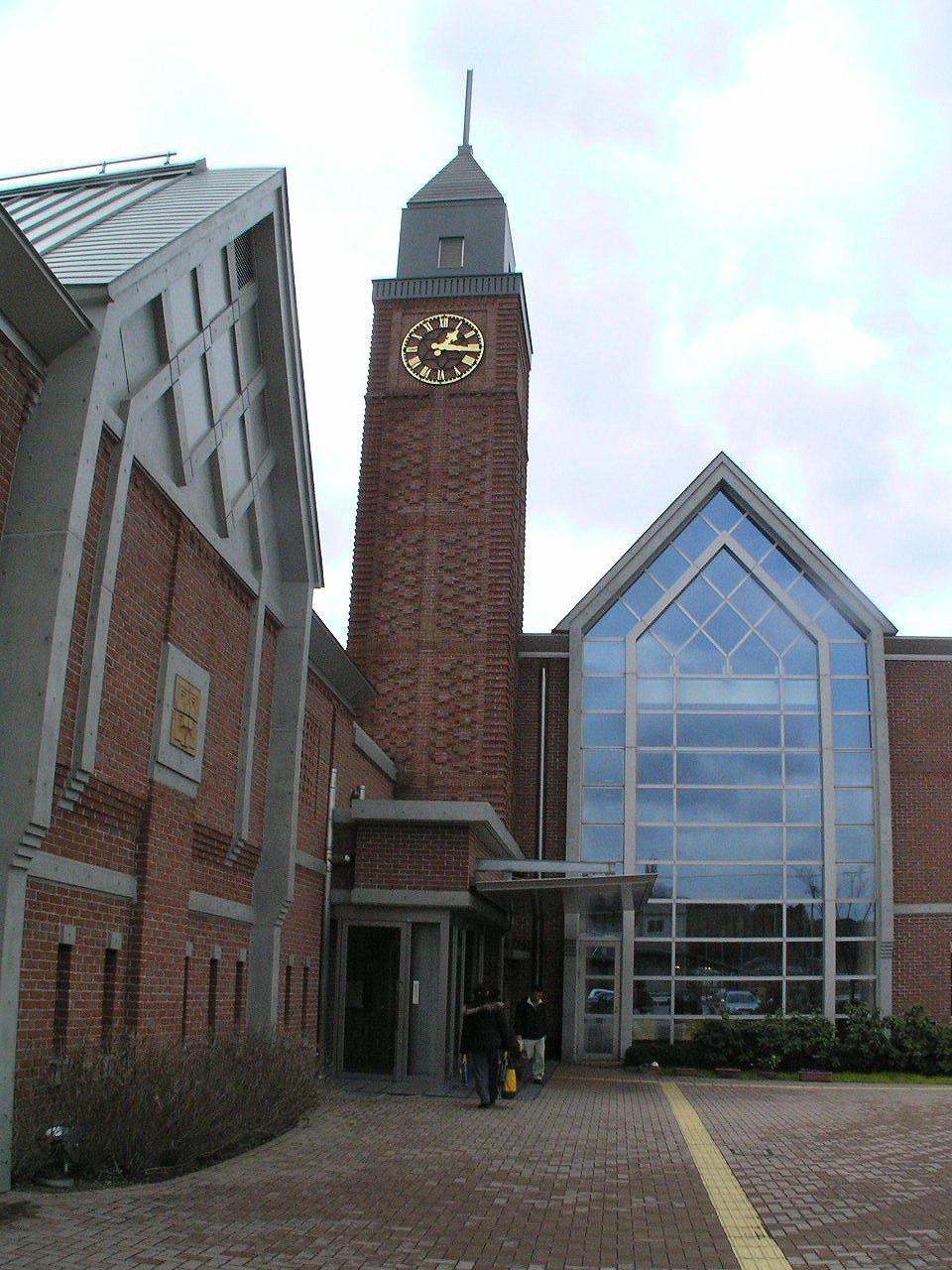 Sasayama City Central Library